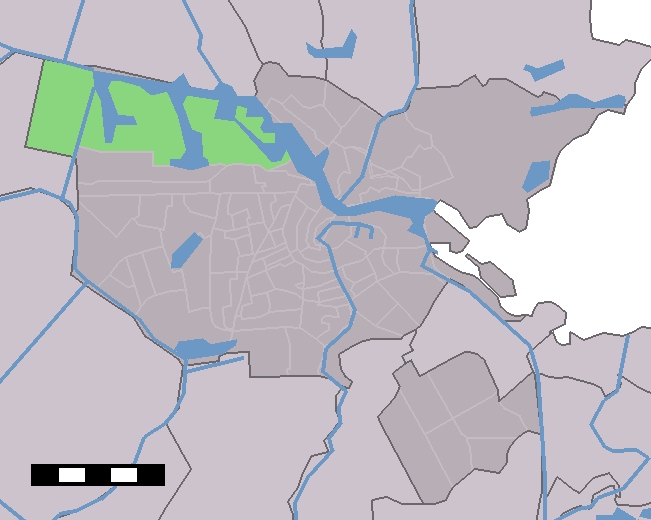 Location of neighbourhoods/districts in Amsterdam